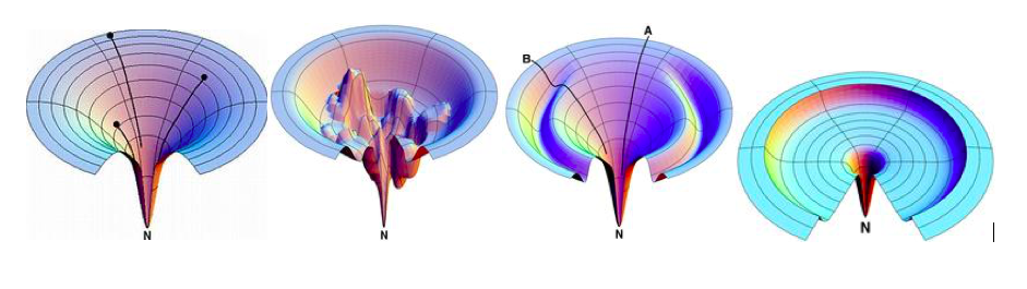 The illustrations of proposed energy landscape that each demonstrate the degree of freedom a protein possesses in terms of configurations and the multidimensional routes that a protein can take to achieve its final configuration.